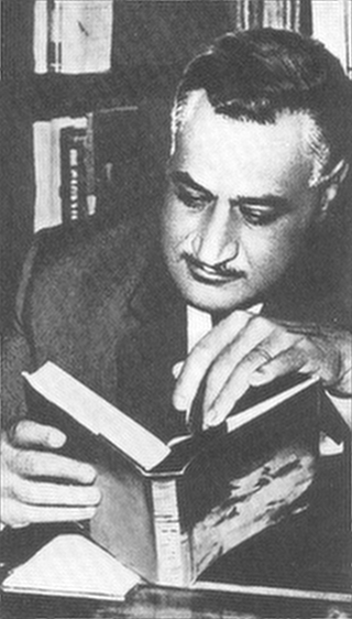 President Gamal Abd-El-Nasser, the second president of Egypt. This image was created in Egypt and is now in the public domain because its term of copyright has expired according to the Egyptian Law